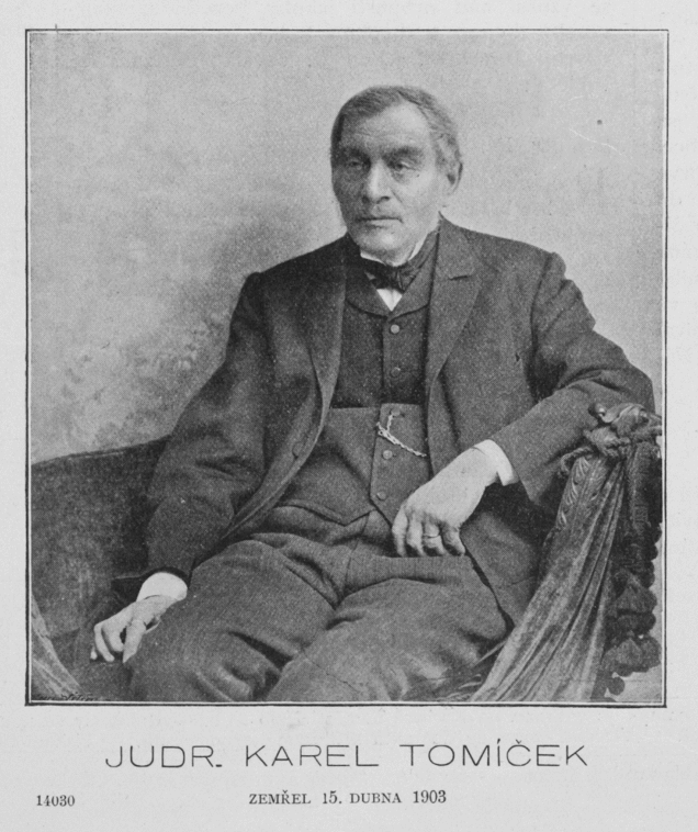 Portrait of Karel Tomíček (1814-1903), Czech lawyer and politician